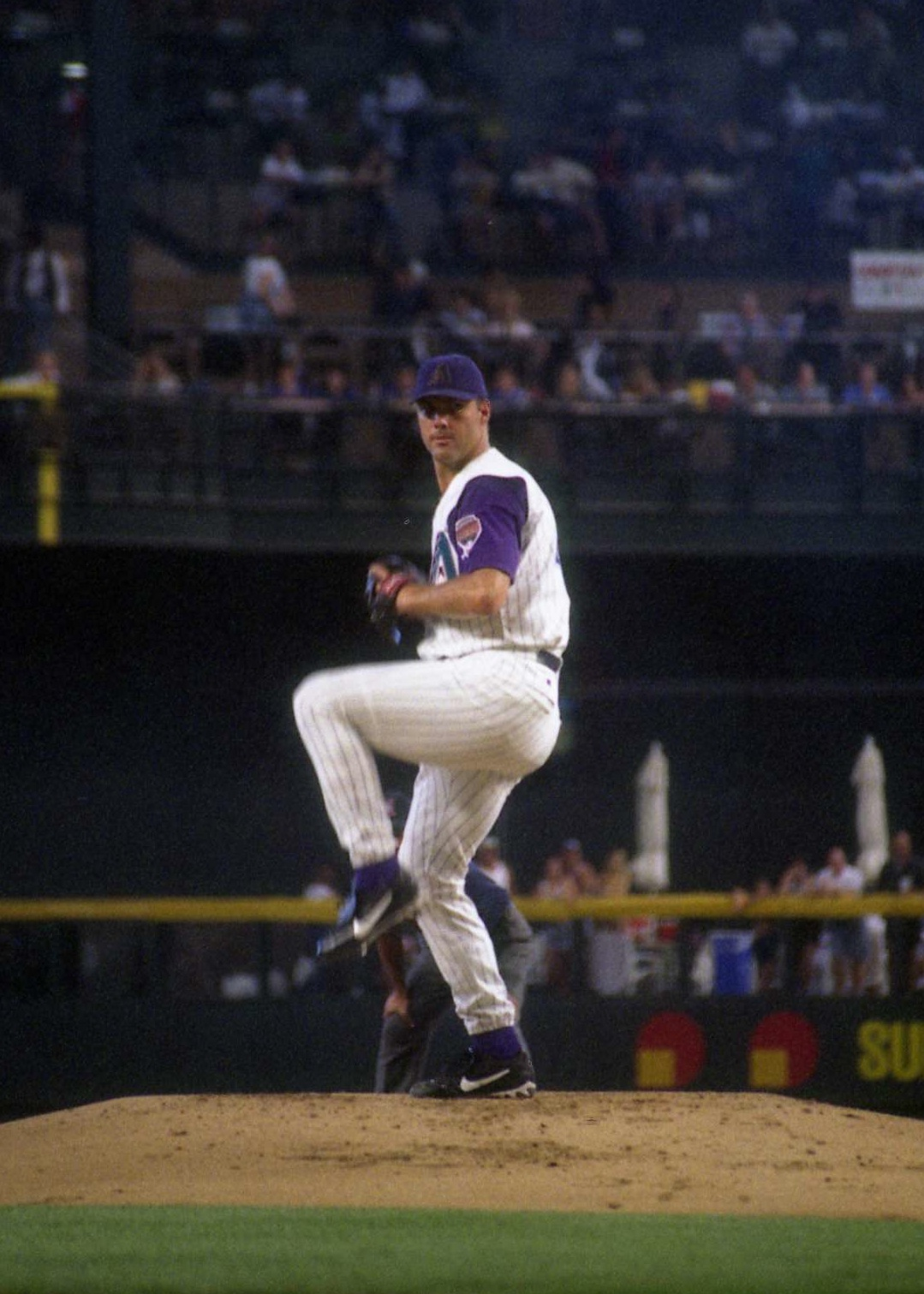 Andy Benes pitching for the Arizona Diamondbacks on Sunday, June 6, 1999.